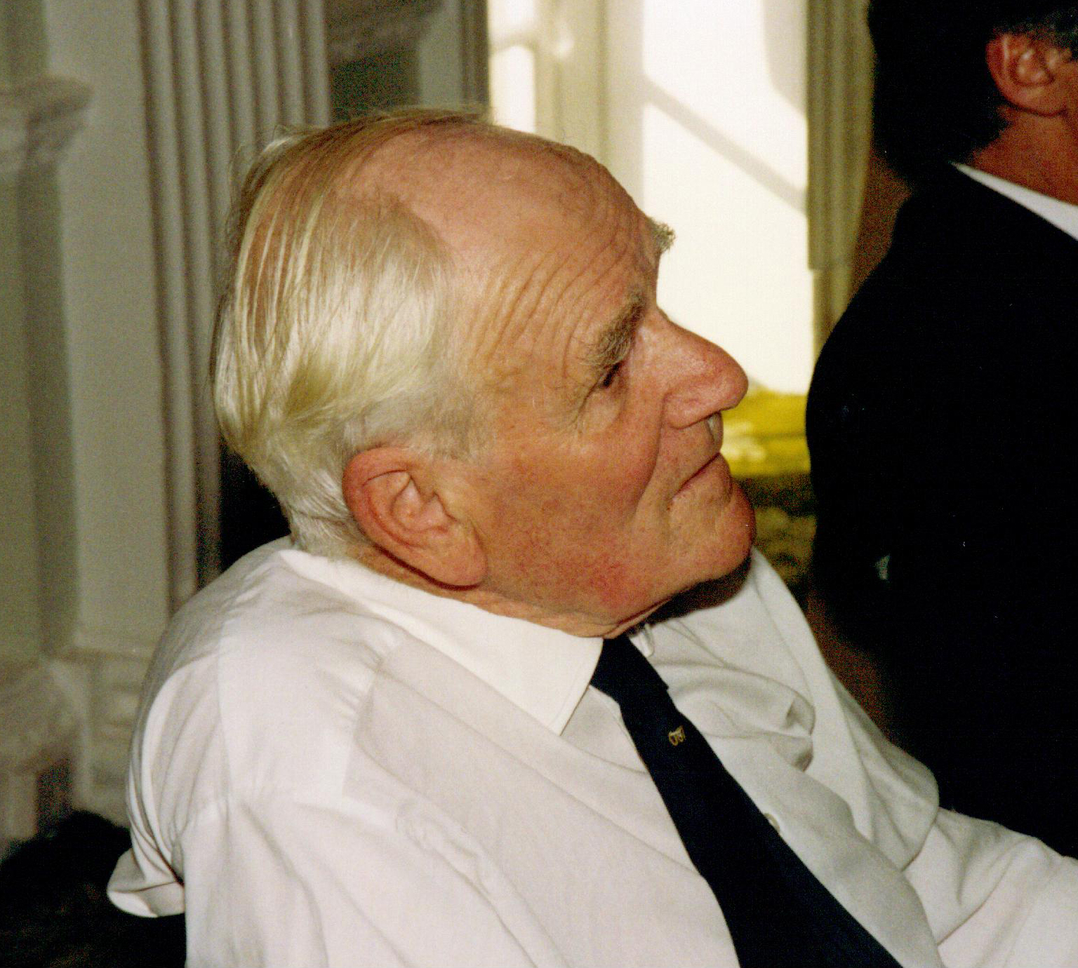 Desmond Llewelyn, the actor who played Q in the majority of the James Bond films. Photograph taken during a convention in 1992 by Lennart Guldbrandsson.